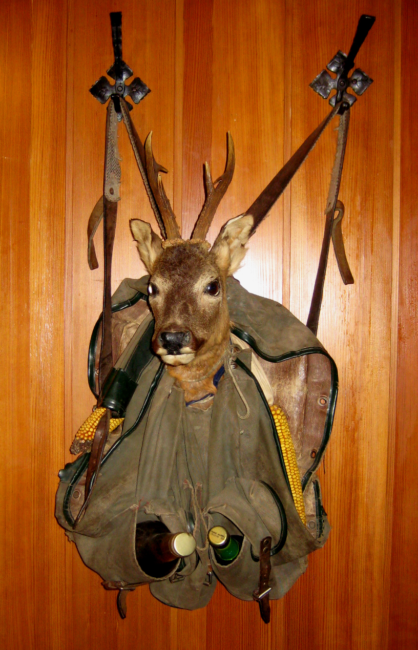 Deer in a sack, a still